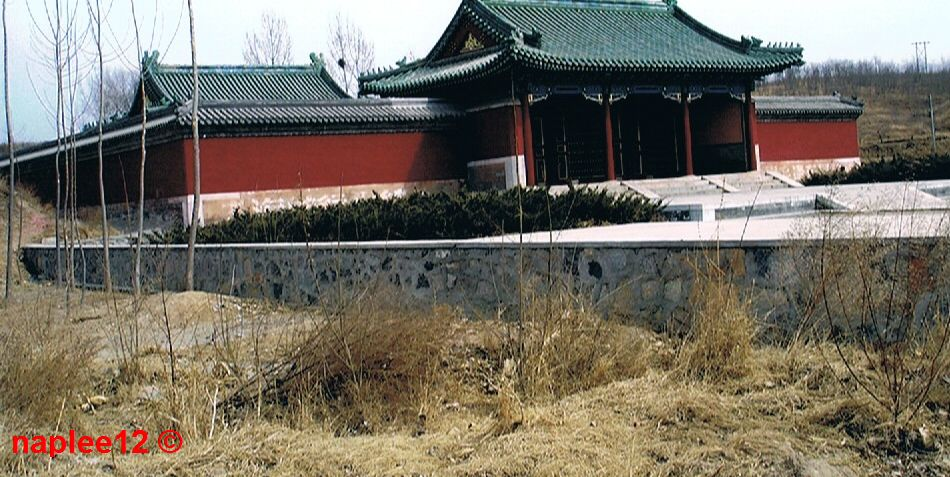 grave of prince huai wang